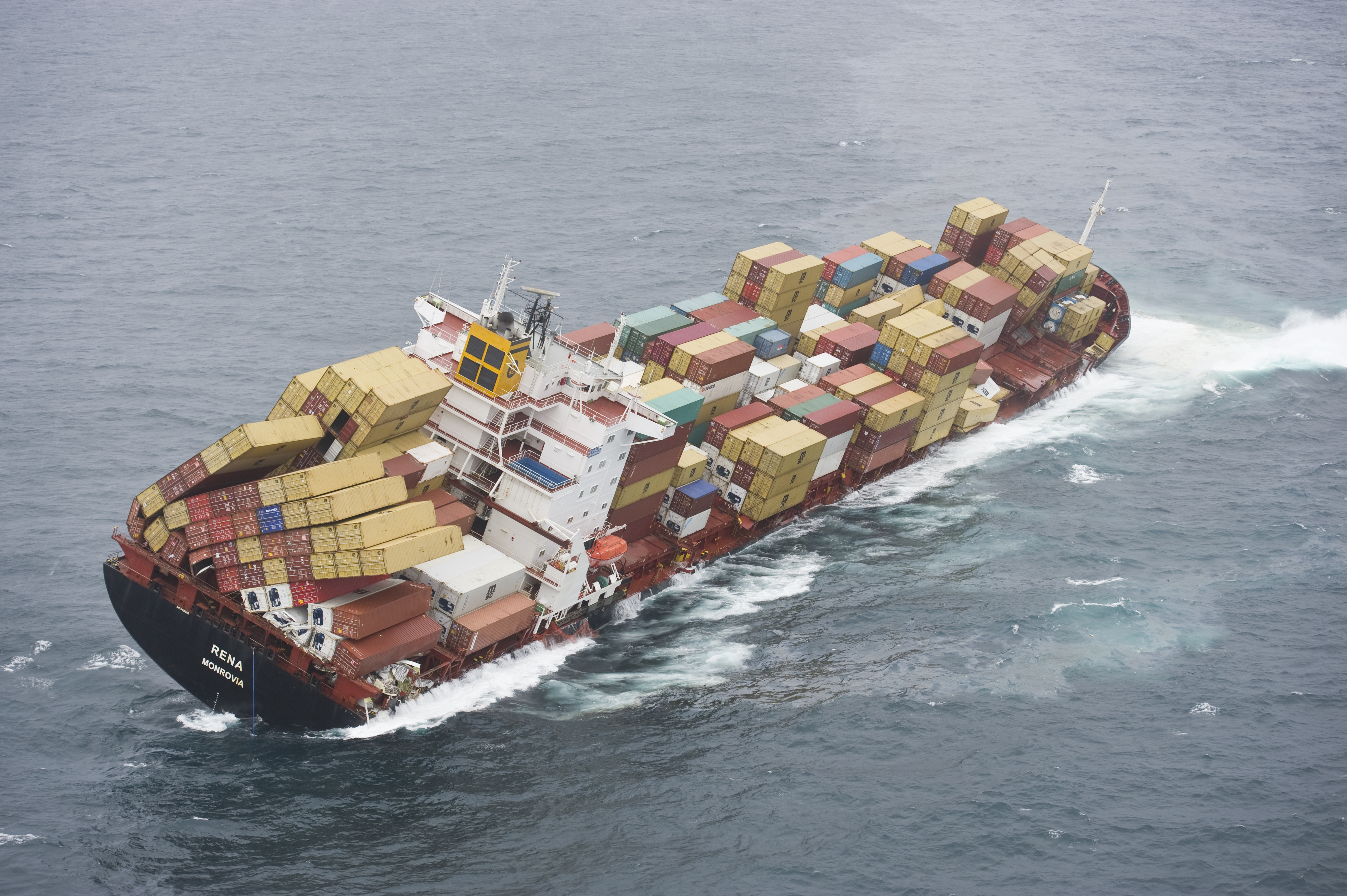 Aerial view of grounded ship Rena